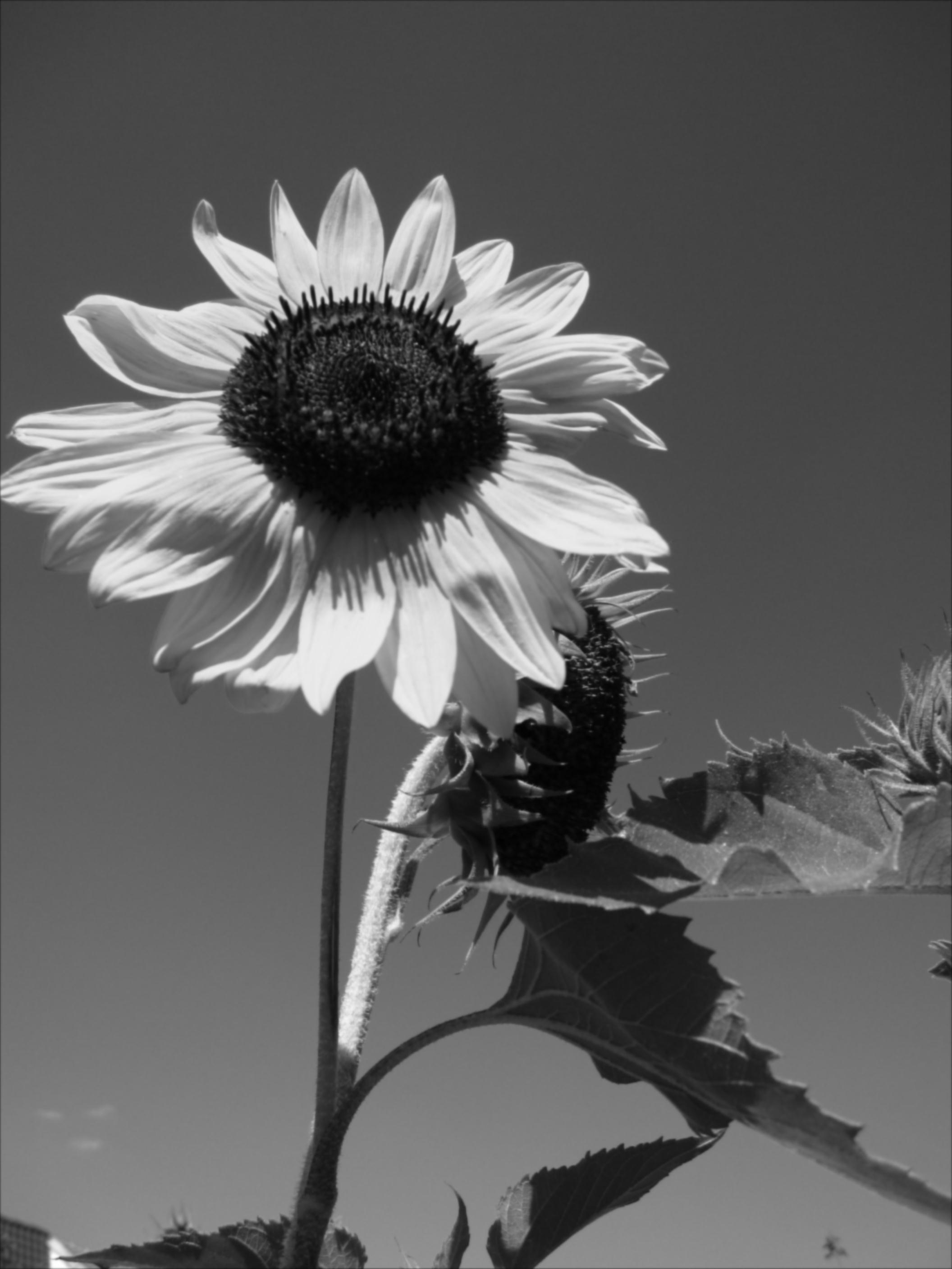 Sun flower picture smoothed with Deriche IIR filter withat parameter aplha = 1